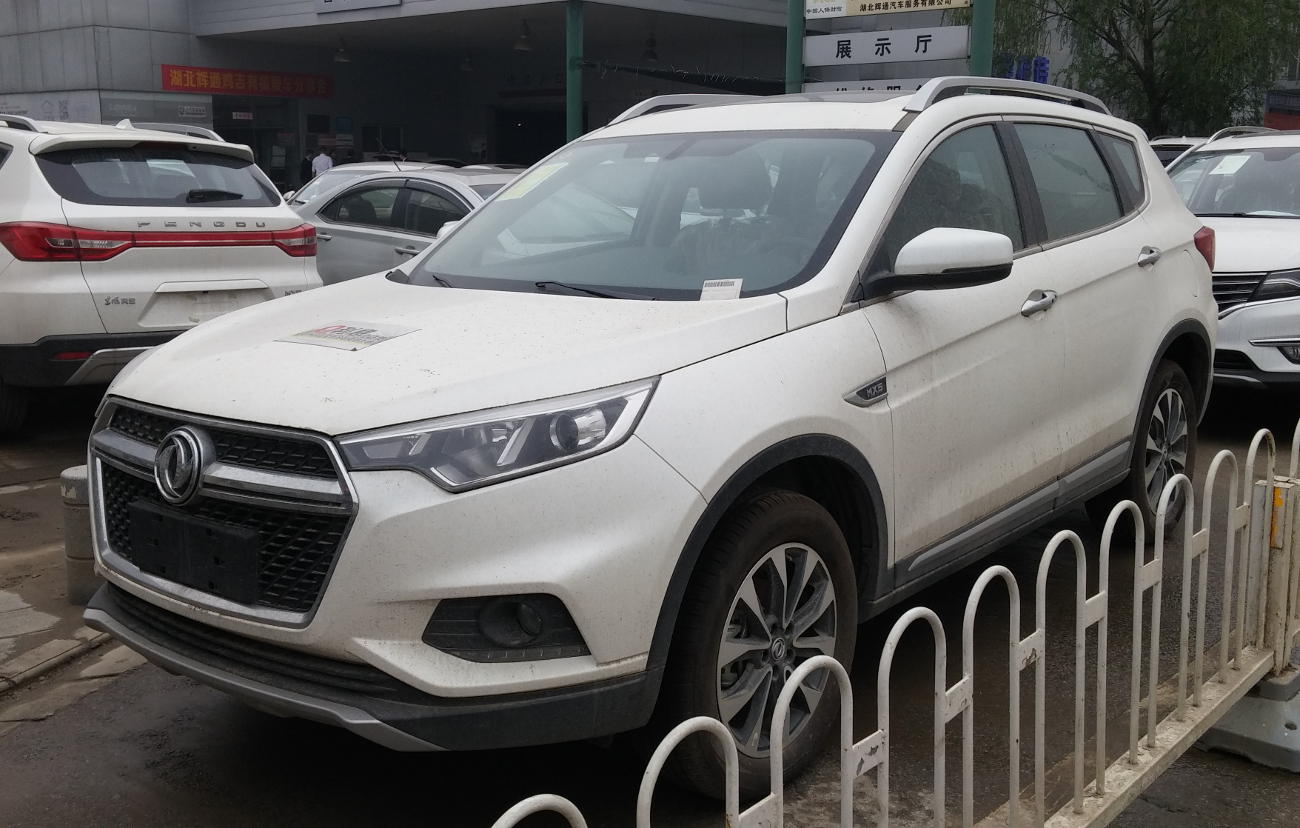 Dongfeng Fengdu MX5 photographed in Wuhan, Hubei province, China.